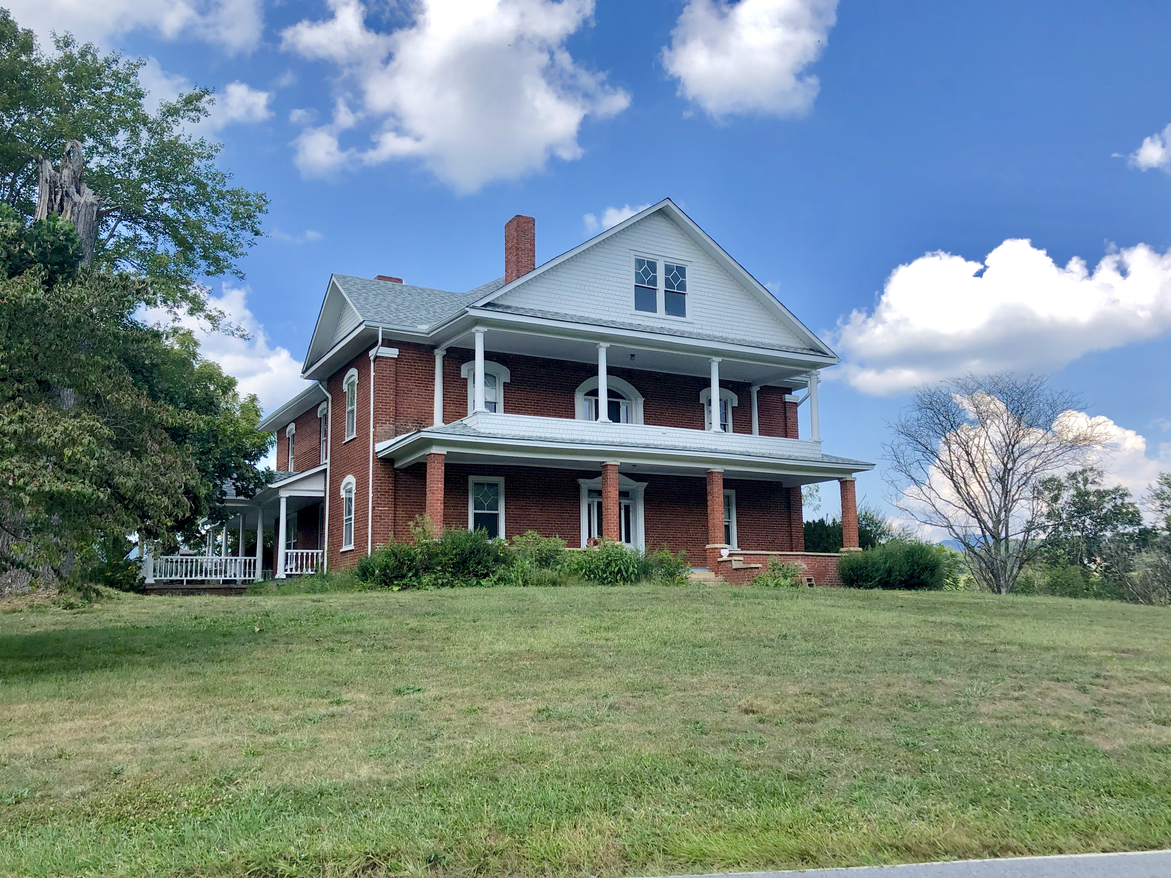 This is the Patton Farmhouse, located near West Canton, North Carolina. Constructed circa 1880, the farmhouse is the principal structure of the Patton Farm, listed on the National Register of Historic Places in 1980.